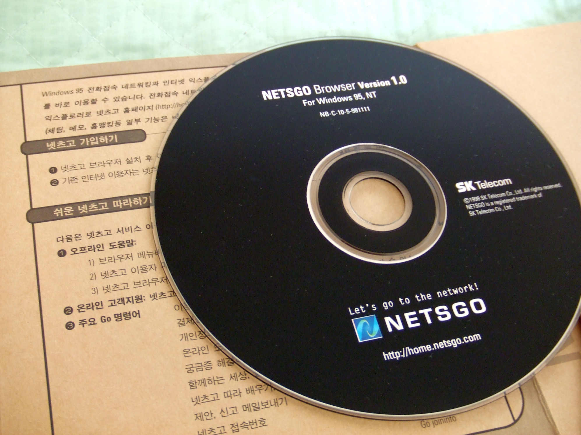 SK Telecom's NETSGO Browser Version 1.0d CD-ROM.